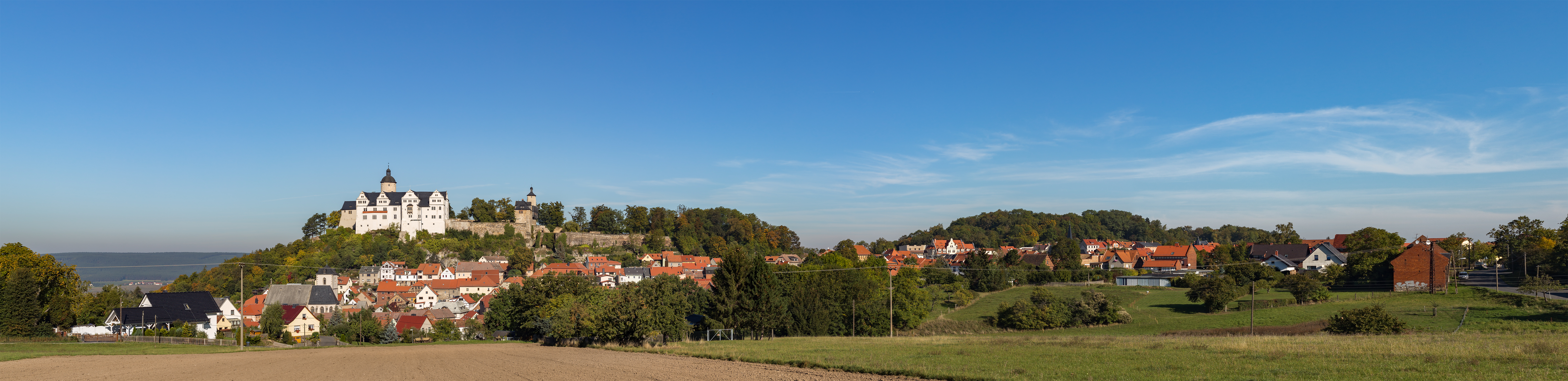 Panoramic view of the city of Ranis (Saale-Orla-Kreis, Thuringia, Germany). Above the town the castle of Ranis can be seen.